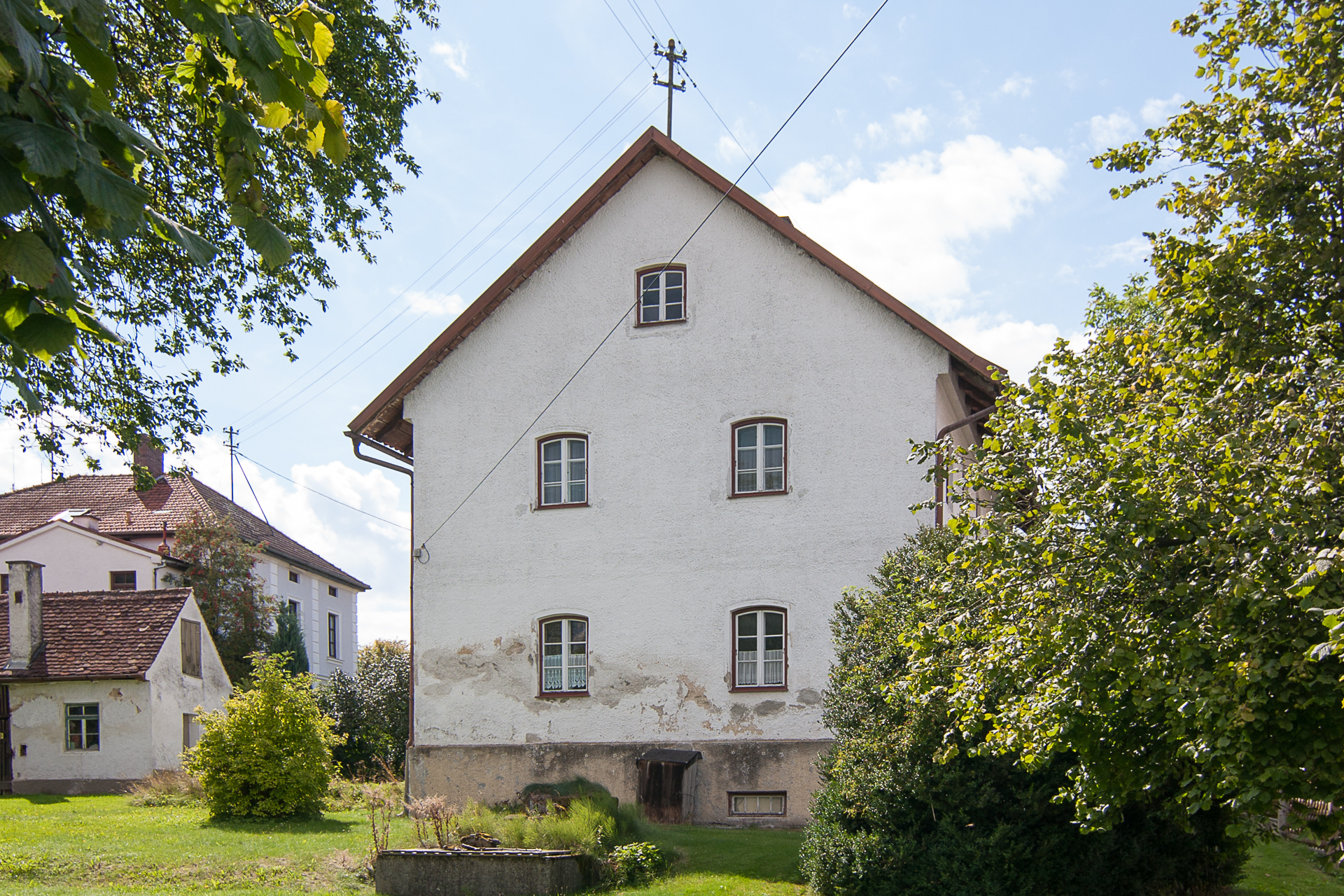 This is a photograph of an architectural monument.